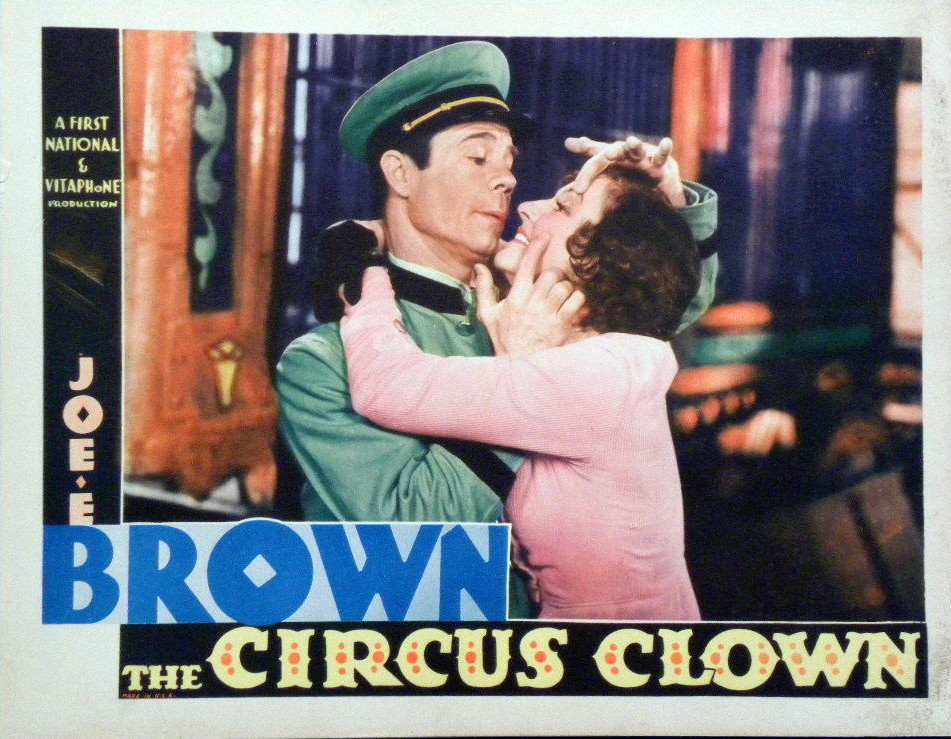 Lobby card for the film The Circus Clown (1934).